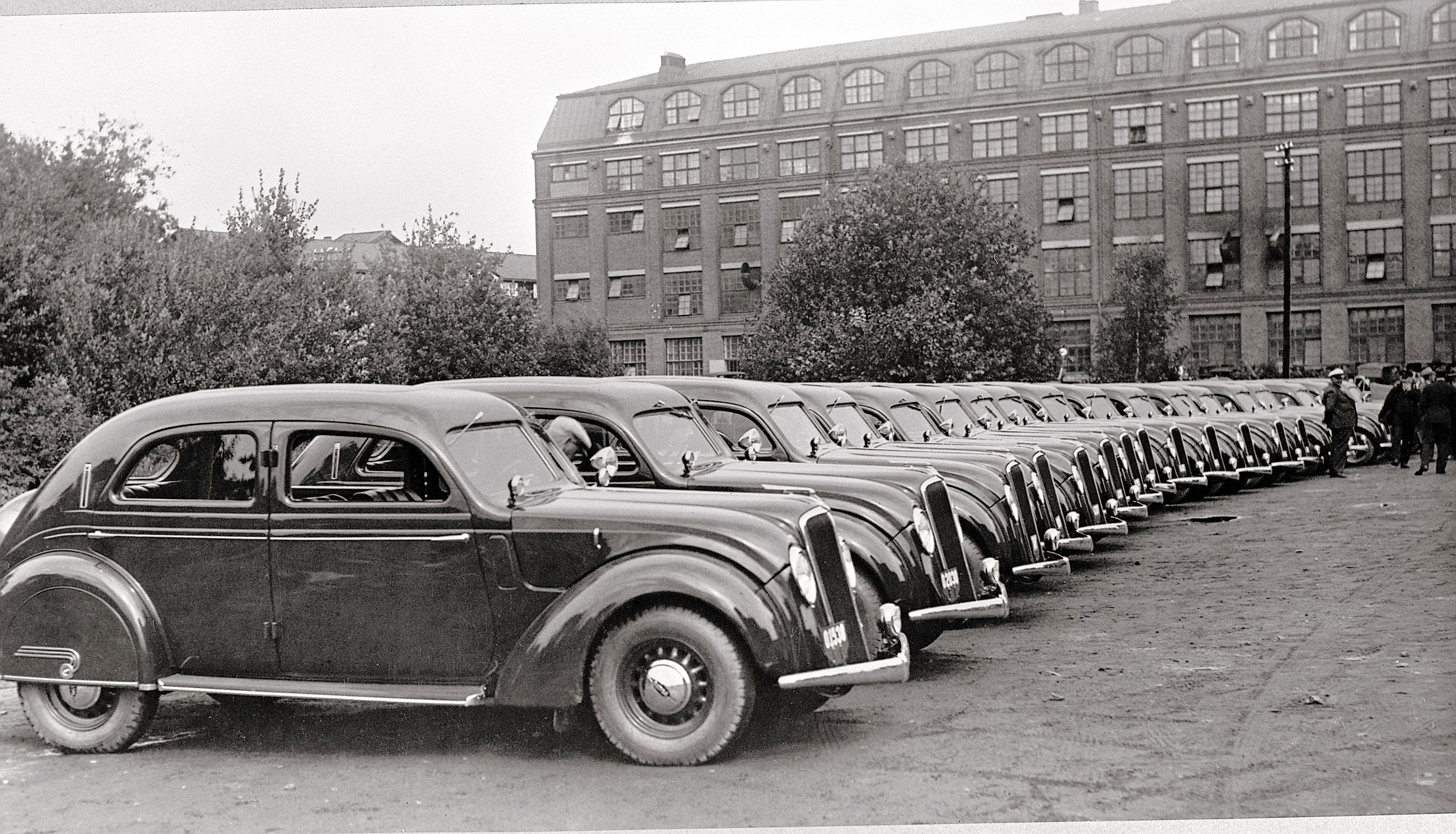 Eighteen Volvo PV36 police cars. Delivered to the Swedish State Police in the summer of 1936.